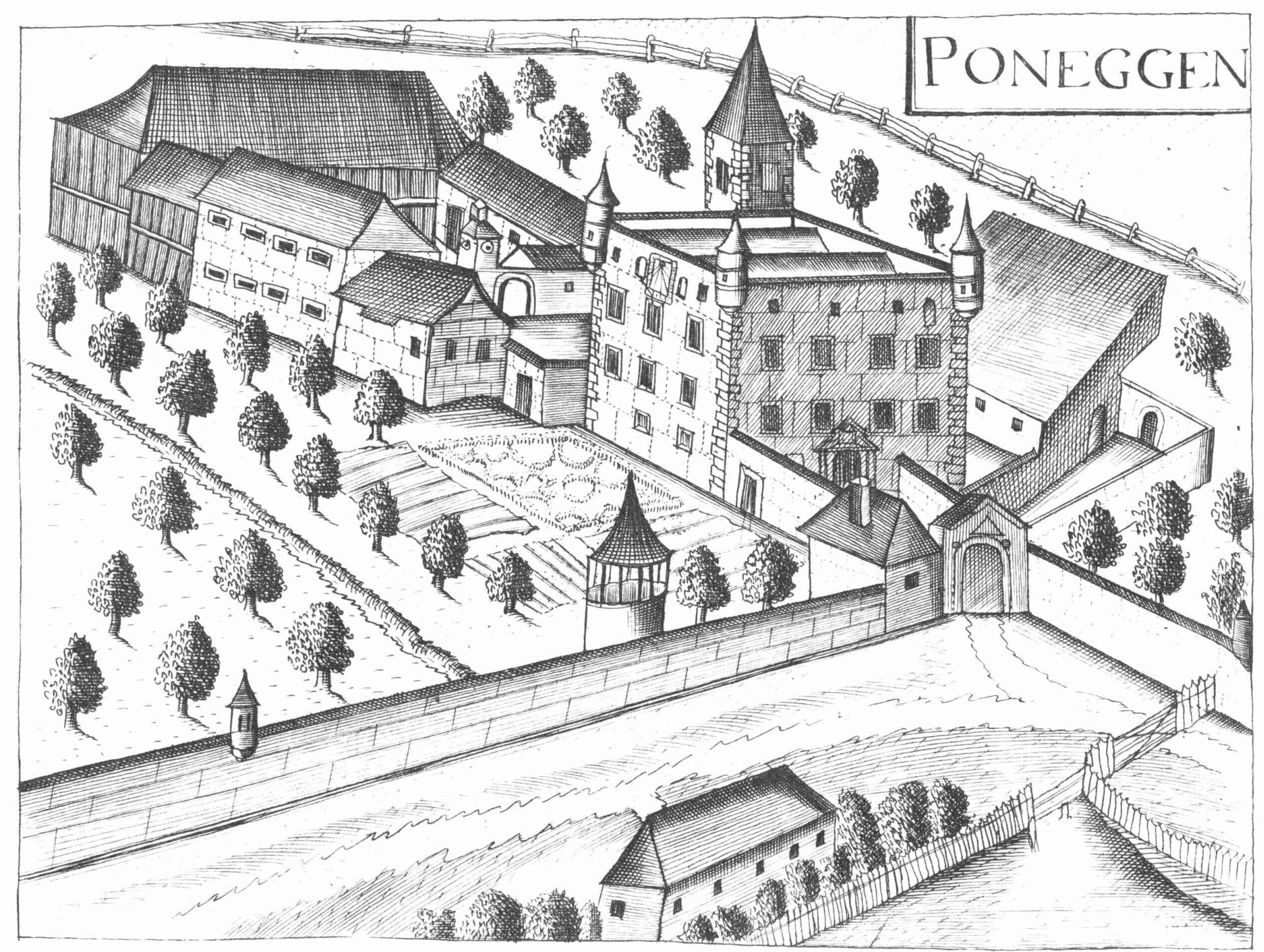 Schwertberg (Schloss Poneggen)